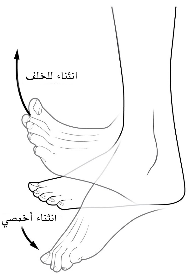 Dorsiflexion and plantar flexion.